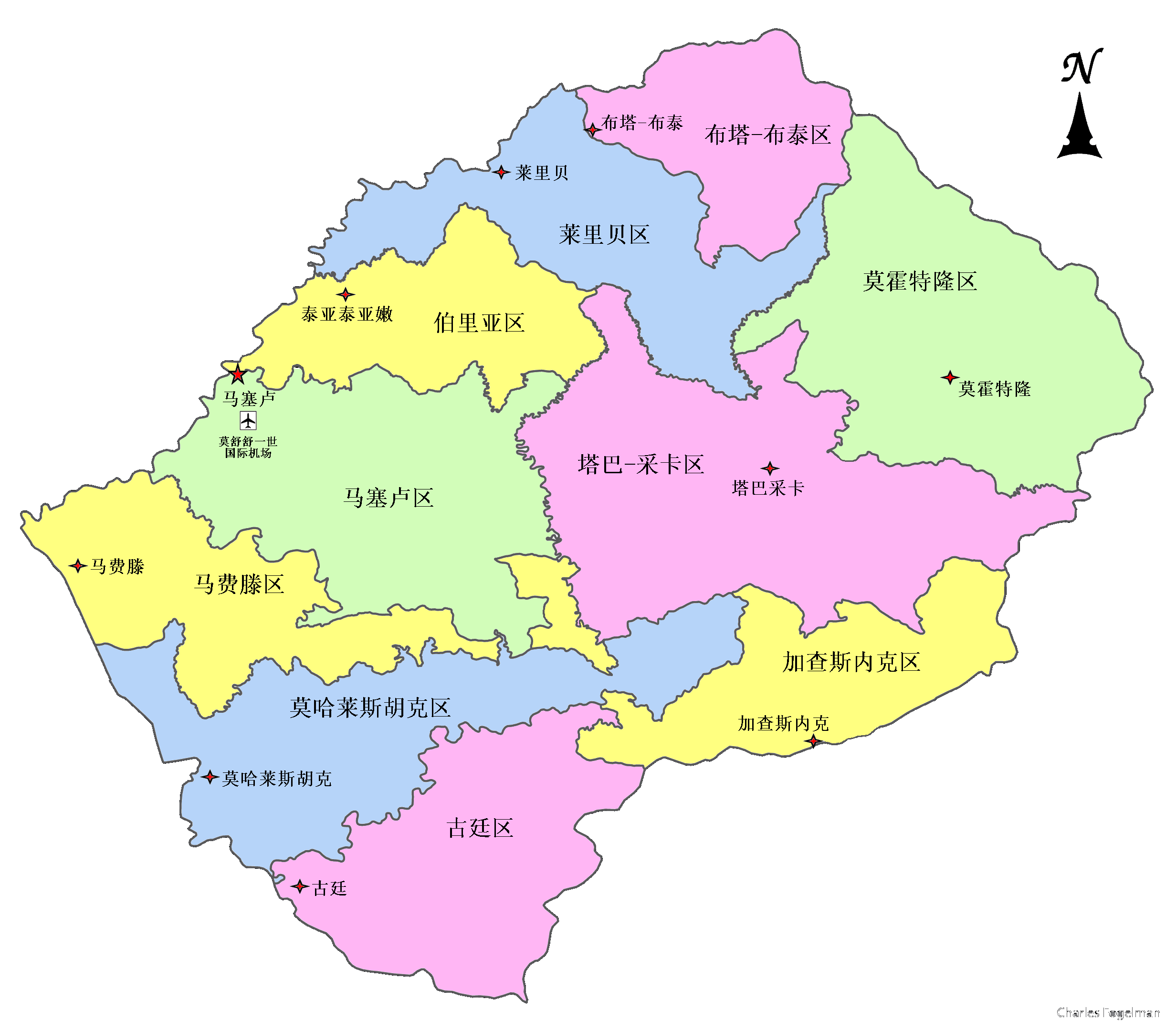 The map of Lesotho